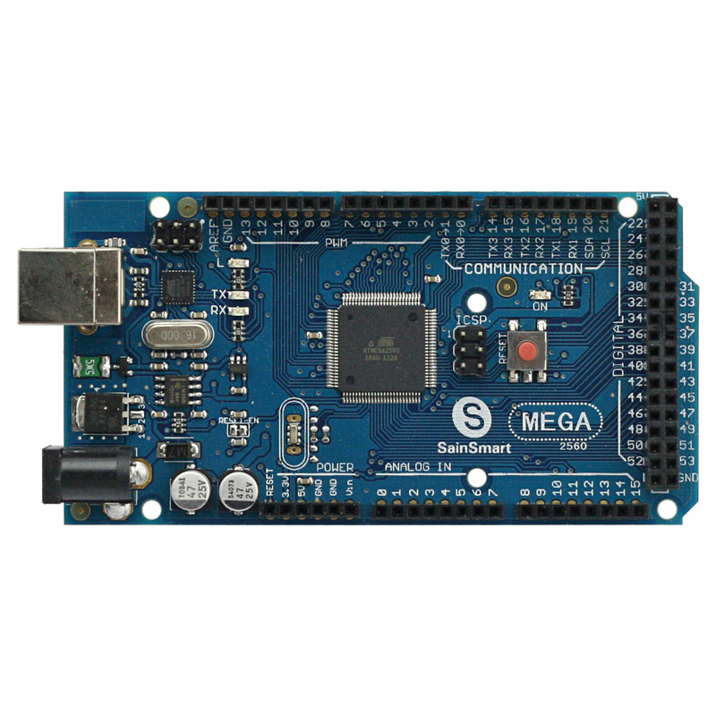 Compatible with Arduino